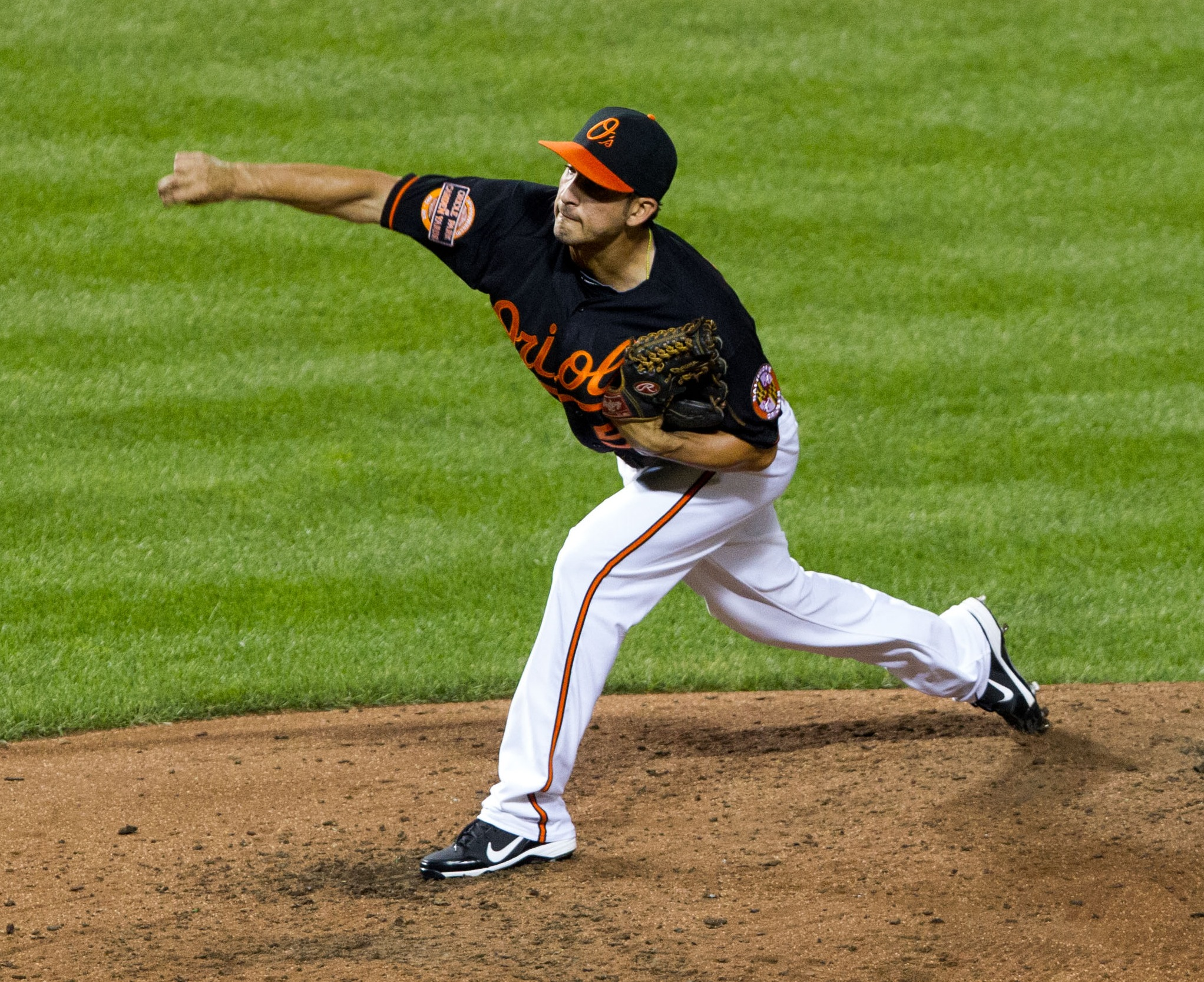 Baltimore Orioles pitcher Miguel Socolovich - Athletics at Orioles July 27, 2012